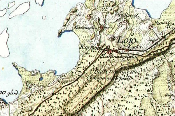 Map of Lohja in 1783